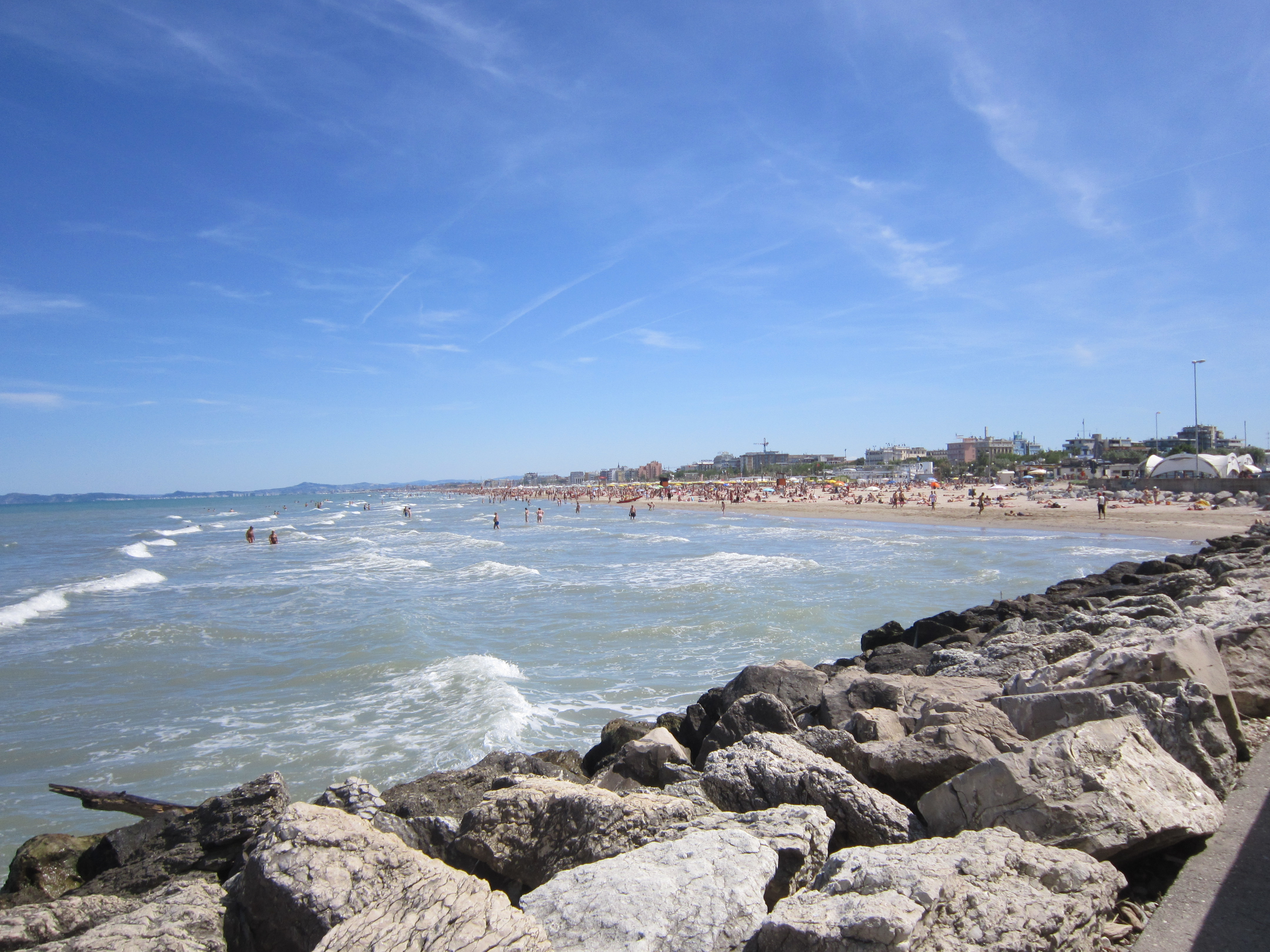 Rimini Beach (on May 2011) seen from the jetty of the local port.